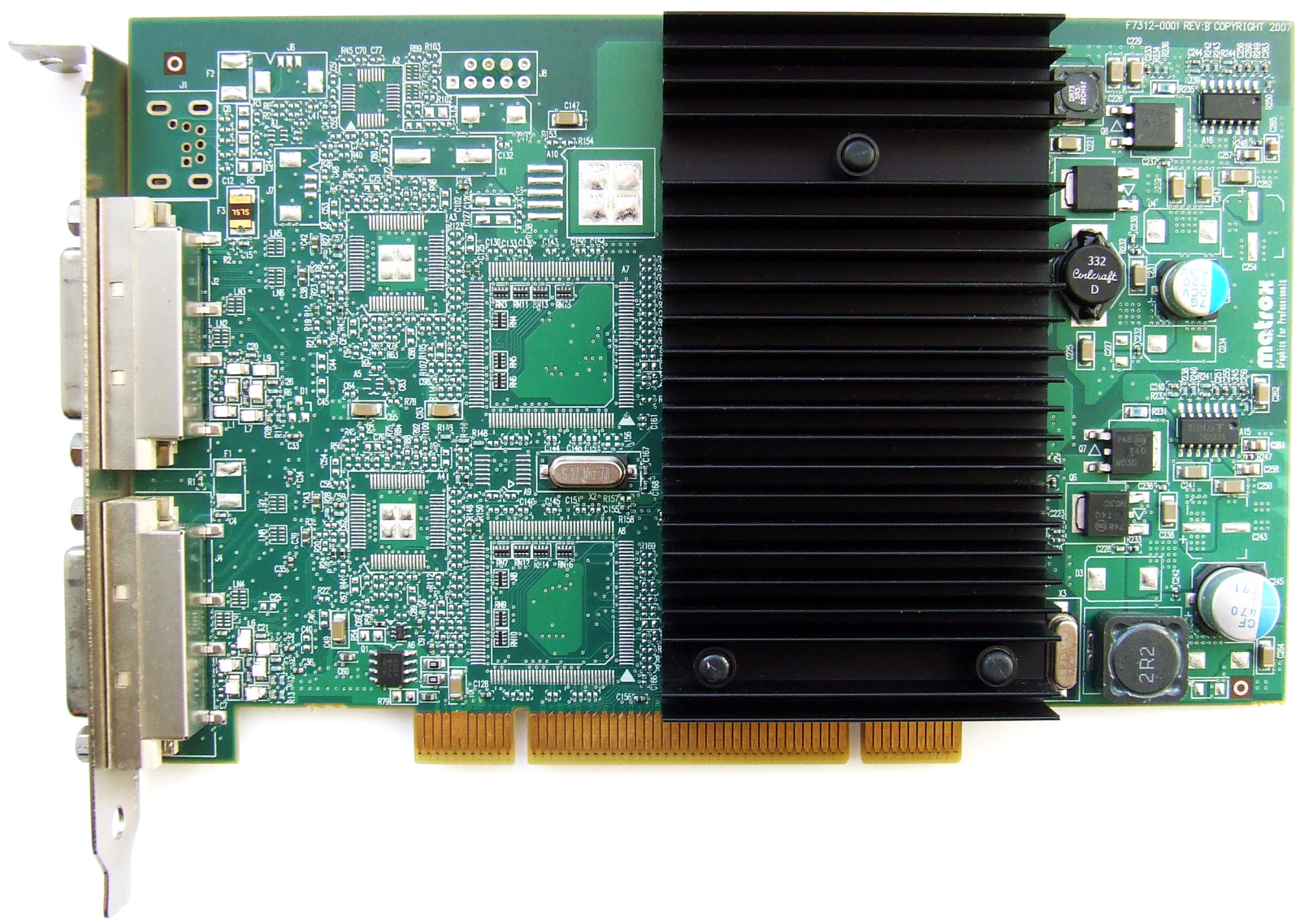 Matrox P690 PCI (P69-MDDP128F) video card. It is based on the Parhelia-LX (90 nm PCIe version) graphics processing unit and equipped with 128 MB of DDR2 SDRAM. A PCIe-to-PCI bridge chip is used to attach the GPU to the PCI bus.